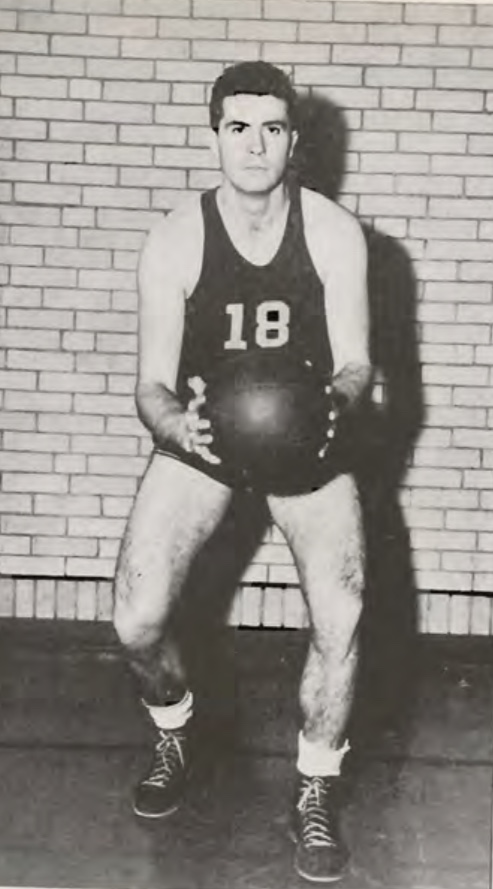 University of Toledo basketball player Bart Quinn from the 1942 “Blockhouse” yearbook.